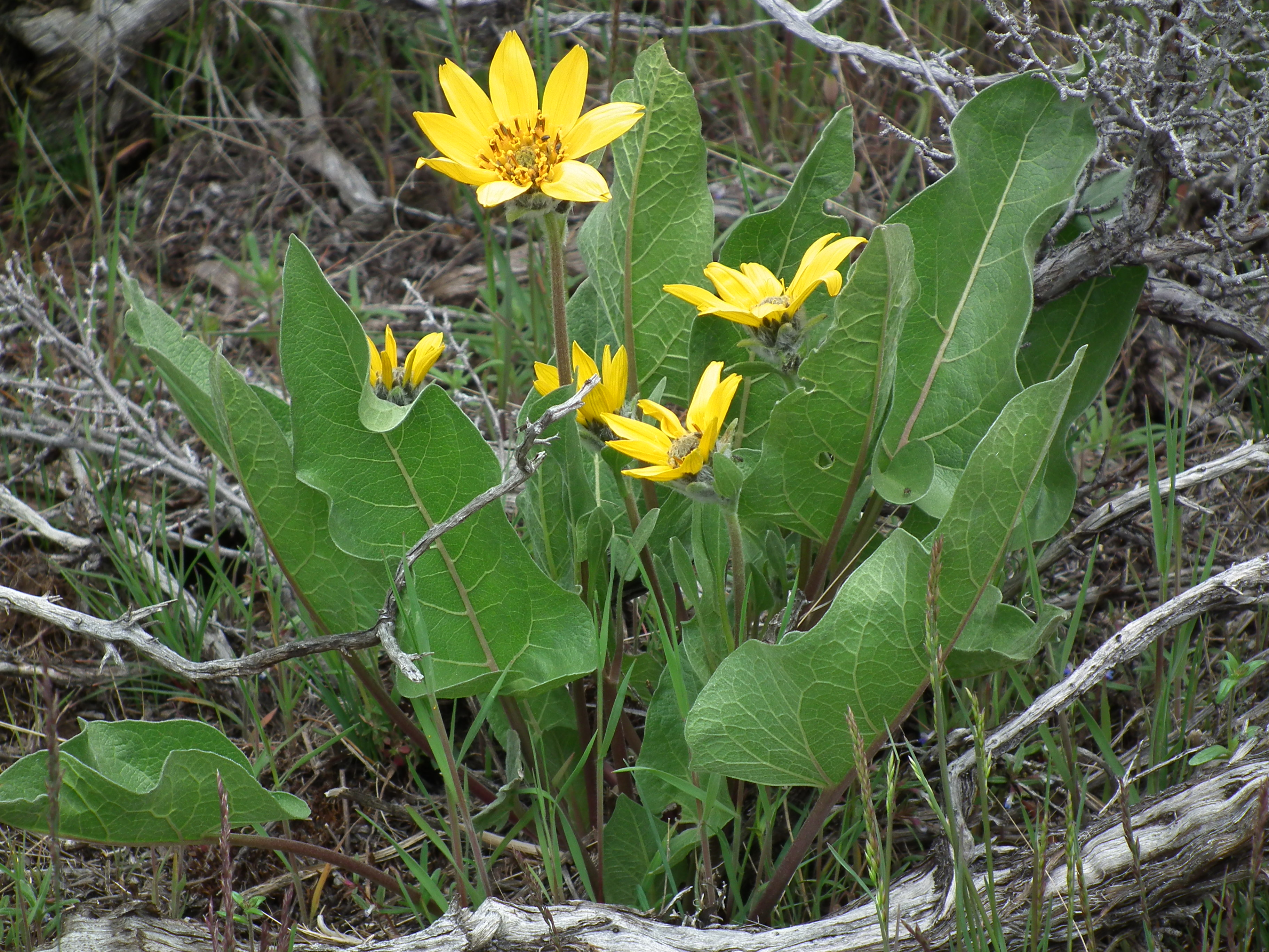 Balsamorhiza careyana — Carey's balsamroot. In the Meeks Table Research Natural Area, William O. Douglas Wilderness, Wenatchee National Forest, Washington, USA.